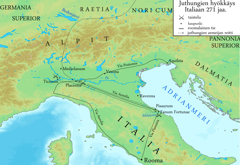 Map of invasion route of Juthungi AD 271.